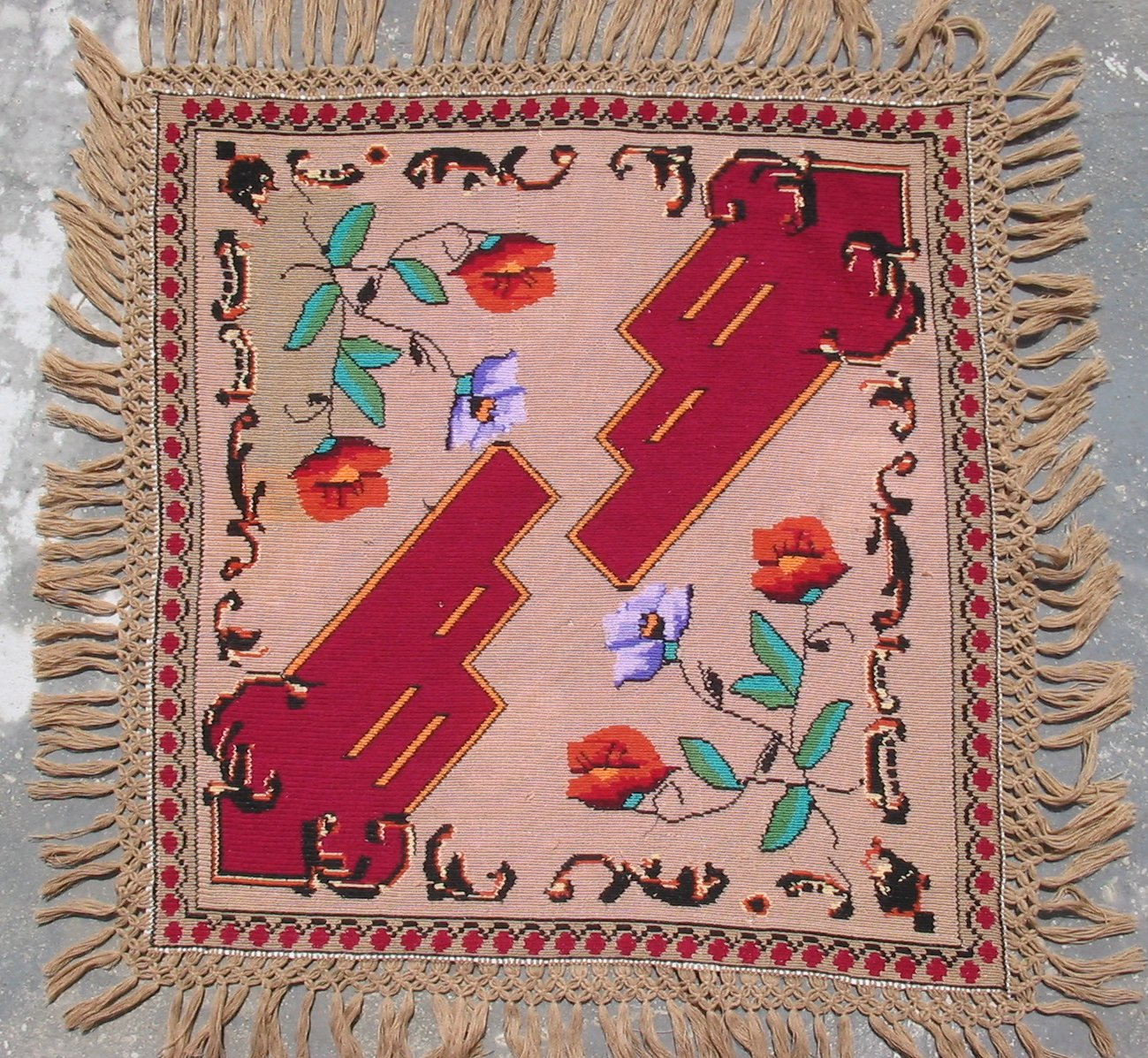 Traditional tablecloth made in Maramures, Romania.